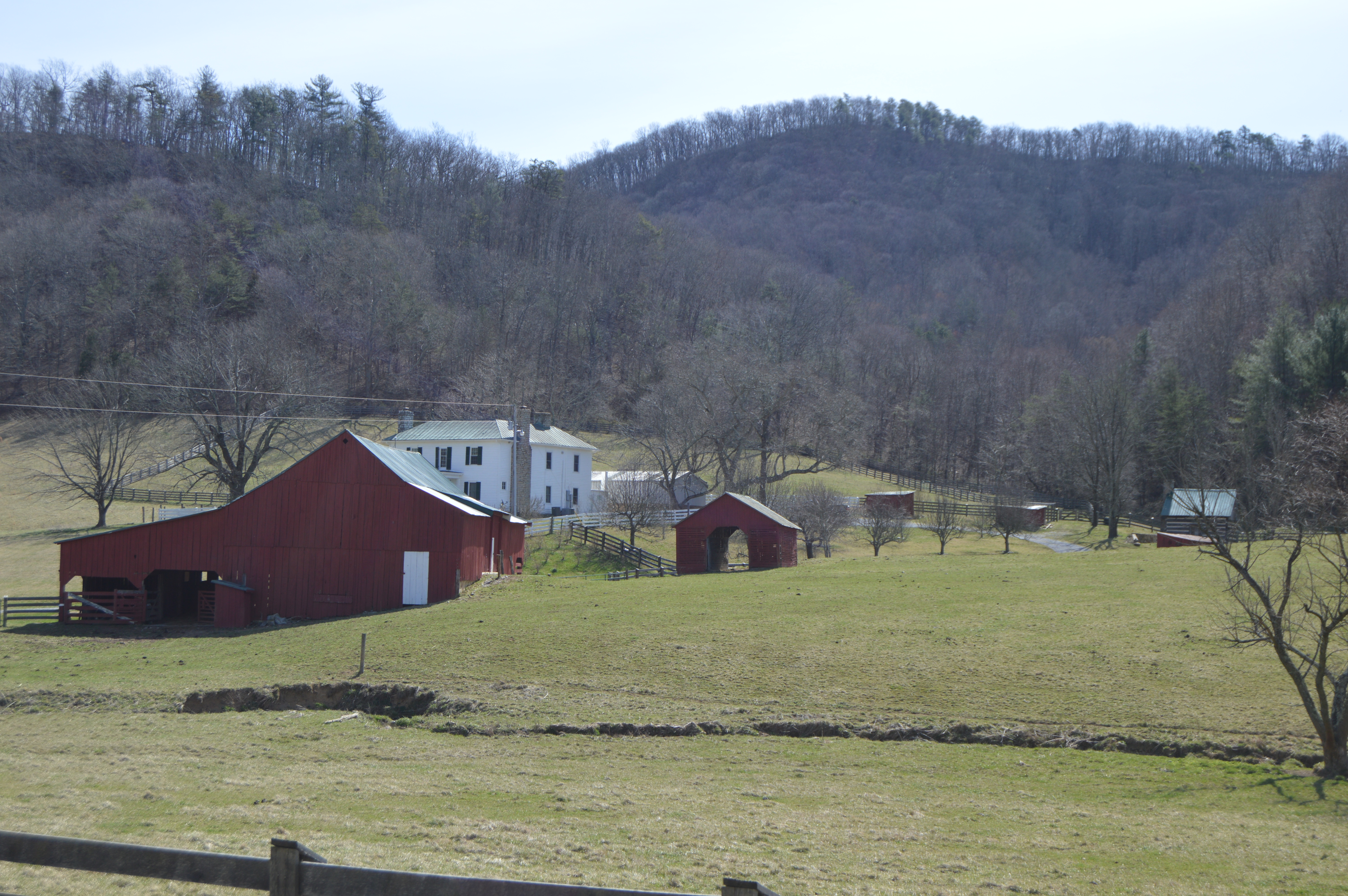 Overview of the Anderson-Doosing Farm, located on Blacksburg Road southwest of Catawba in Roanoke County, Virginia, United States. Both the 1883 farmhouse and the barns, built at various dates, are listed together on the National Register of Historic Places.